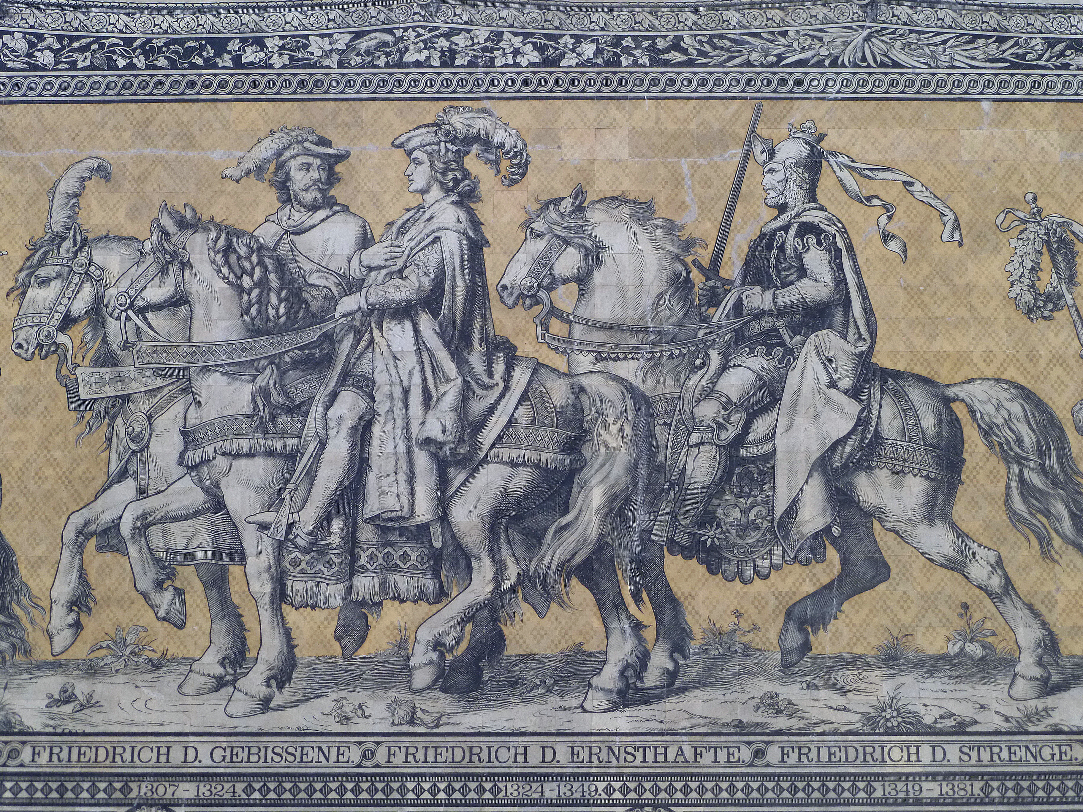 Frederick I, Margrave of Meissen (1307–1324), Frederick II, Margrave of Meissen (1324–1349), and Frederick III, Landgrave of Thuringia (1349–1381); Fürstenzug, Dresden, Germany